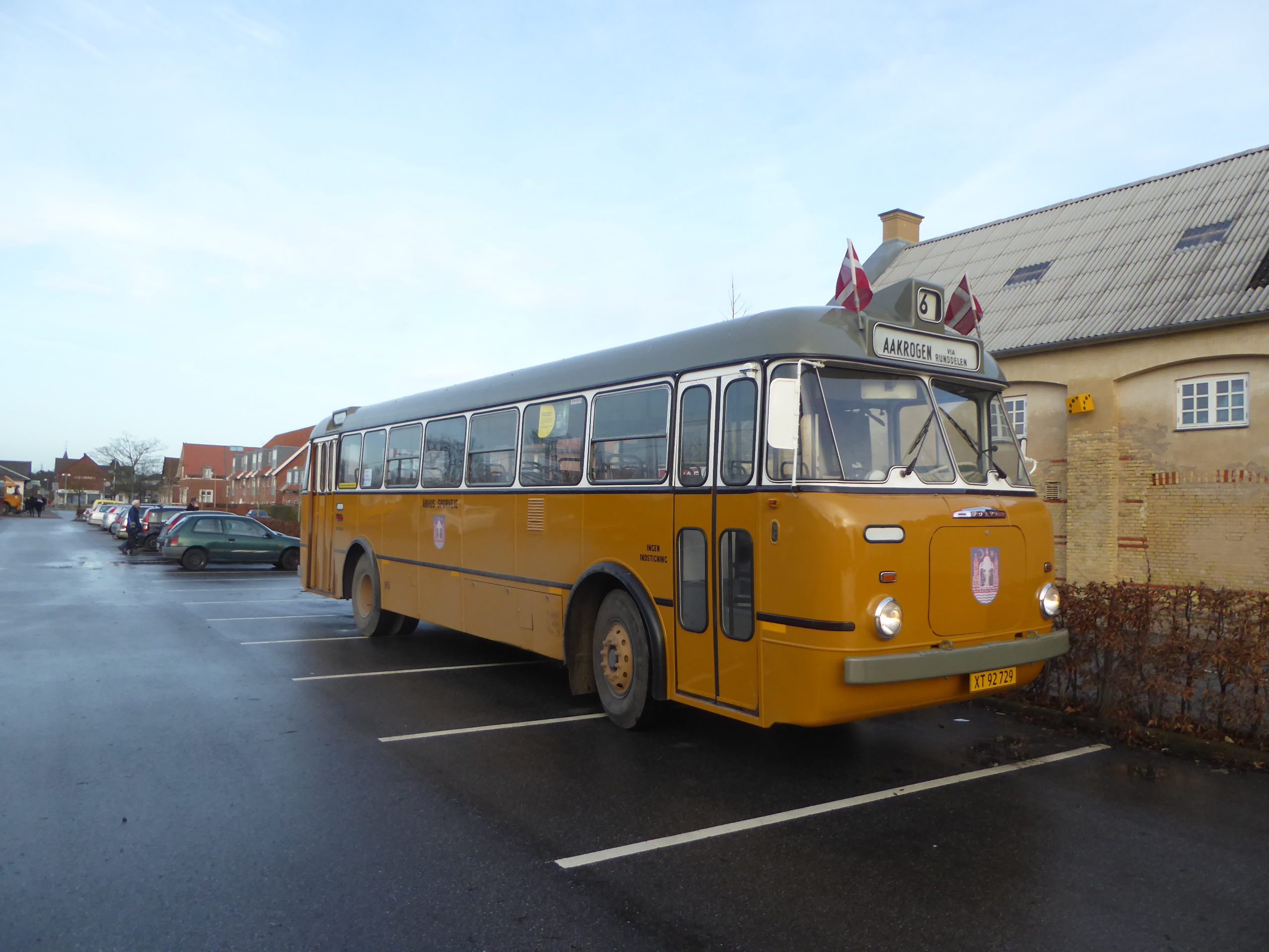 Buses belonging to Sporvejsmuseet Skjoldenæsholm at Borup Station in Denmark. ÅS 165 from Aarhus from 1961.